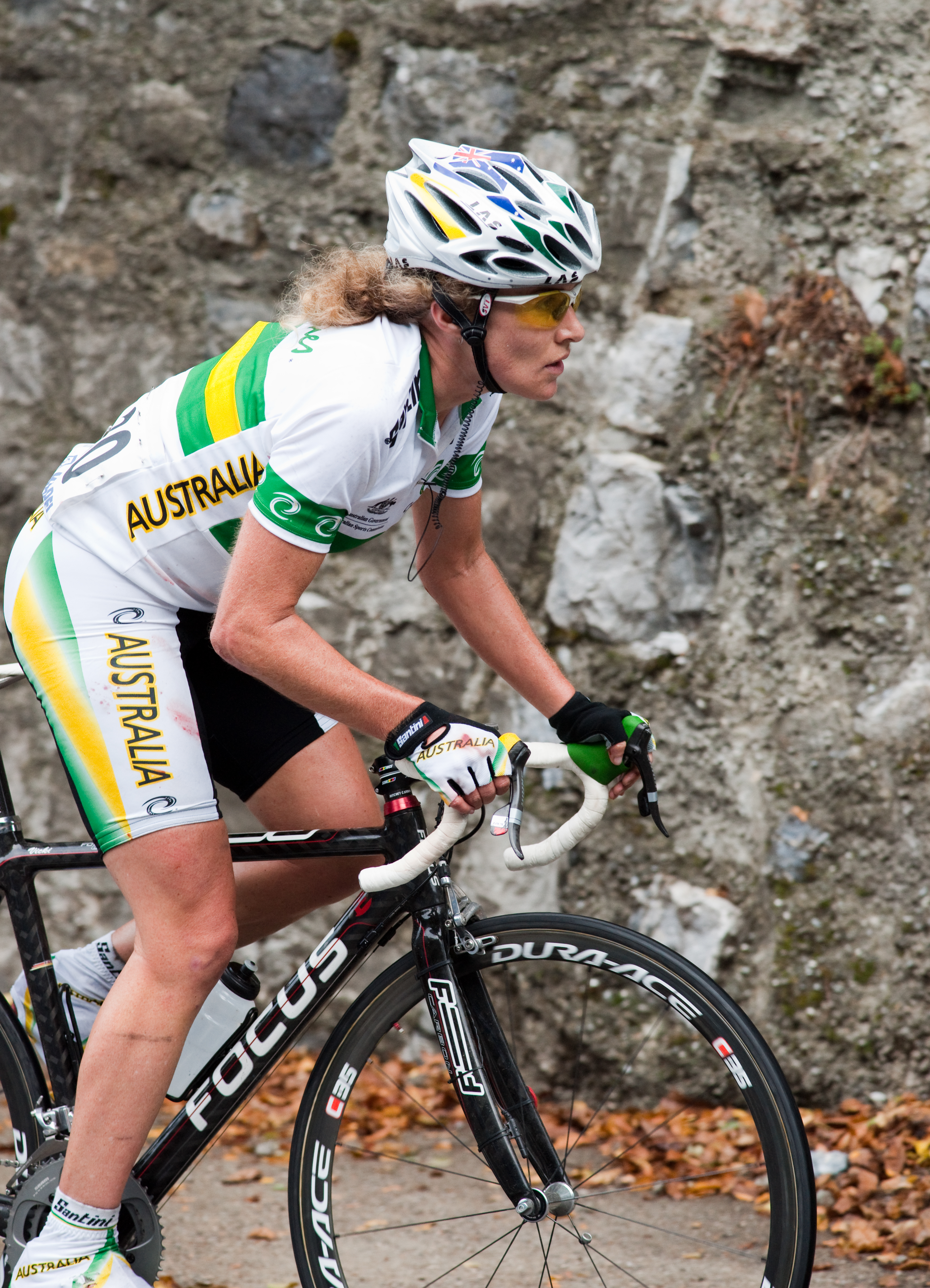 Vicki Whitelaw during the 2009 UCI Road World Championships in Mendrisio, Switzerland.